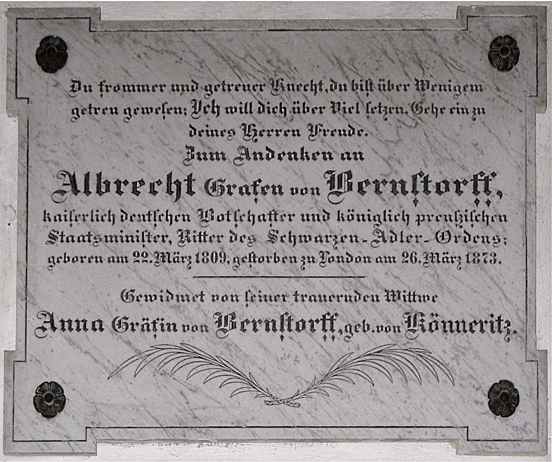 Memorial for Albrecht von Bernstorff (1809-1873) in in the Church St. Abundus in Lassahn, Mecklenburg-Vorpommern, Germany